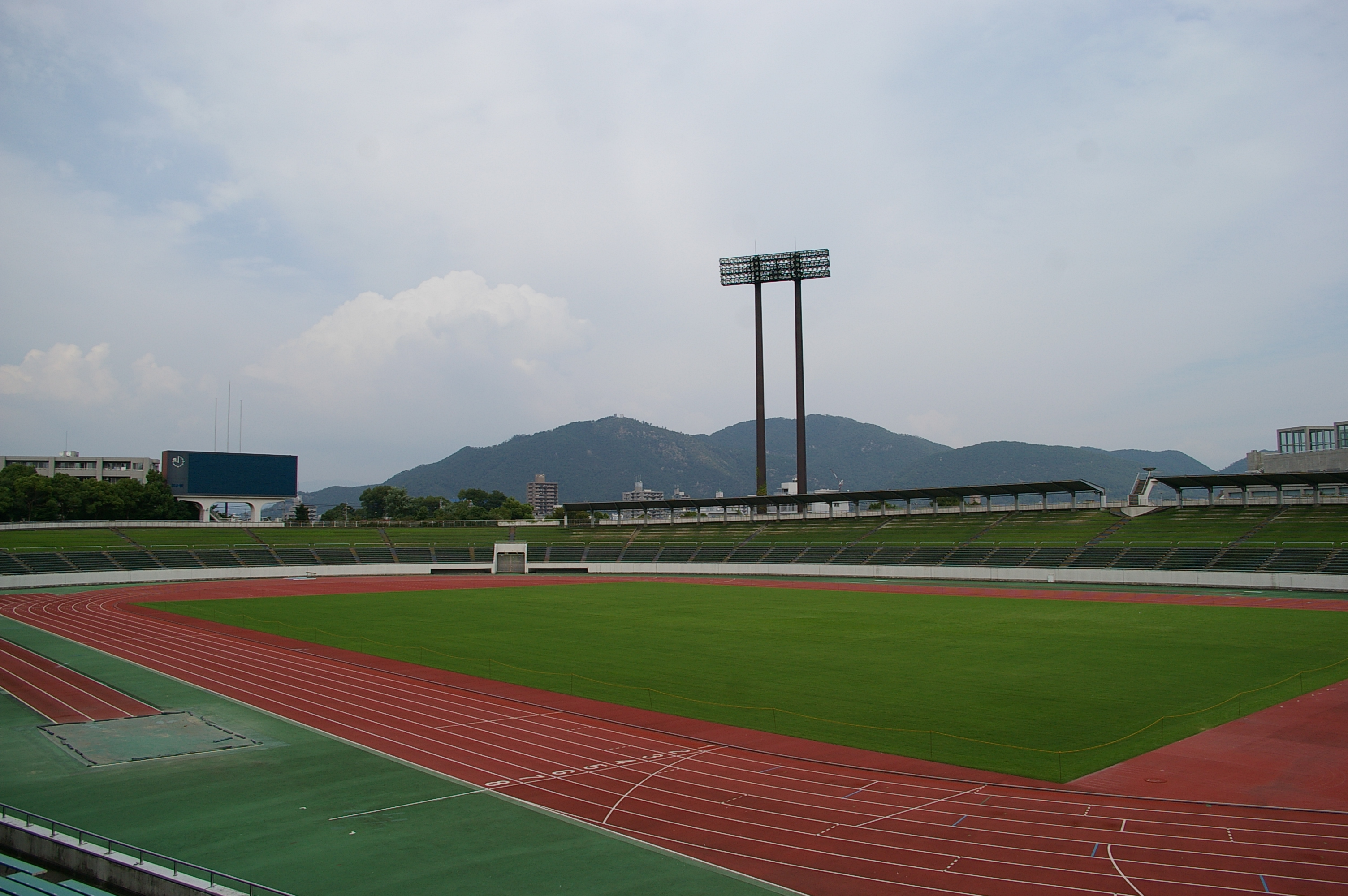 Nagaragawa Memorial Stadium.Gihu-Pref,Japan